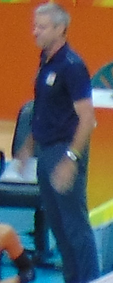 Karch Kiraly coaching the United States women's national volleyball team at the Rio 2016 Olympics.